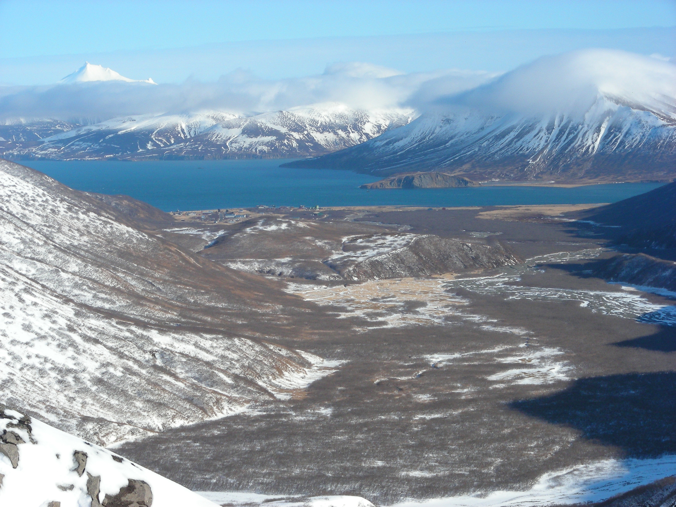 False Pass environs: From the lower flanks of Roundtop volcano, one has a sweeping view of the glacial valley that leads east and terminates at Isanotski strait, where the City of False Pass is located. Beyond Isanotski Strait can be seen the Alaska Peninsula and Mt. Frosty near Cold Bay (Latitude 55.074167, Longitude -162.811111, Peak Elevation 3,369 feet or 1,026.87 m).